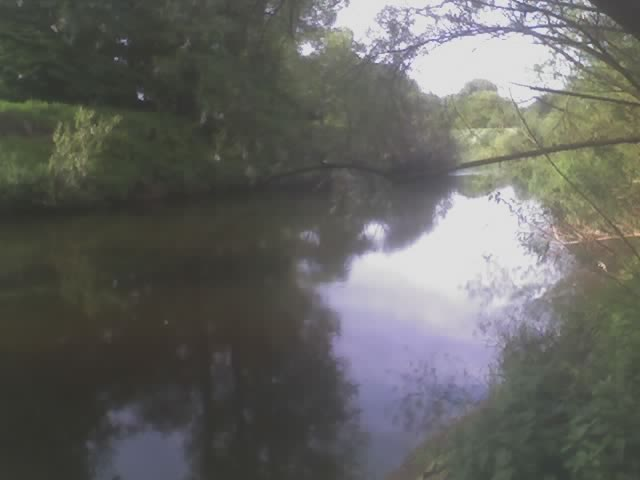 The Ems river east of Muenster (private photo taken by specialplant)